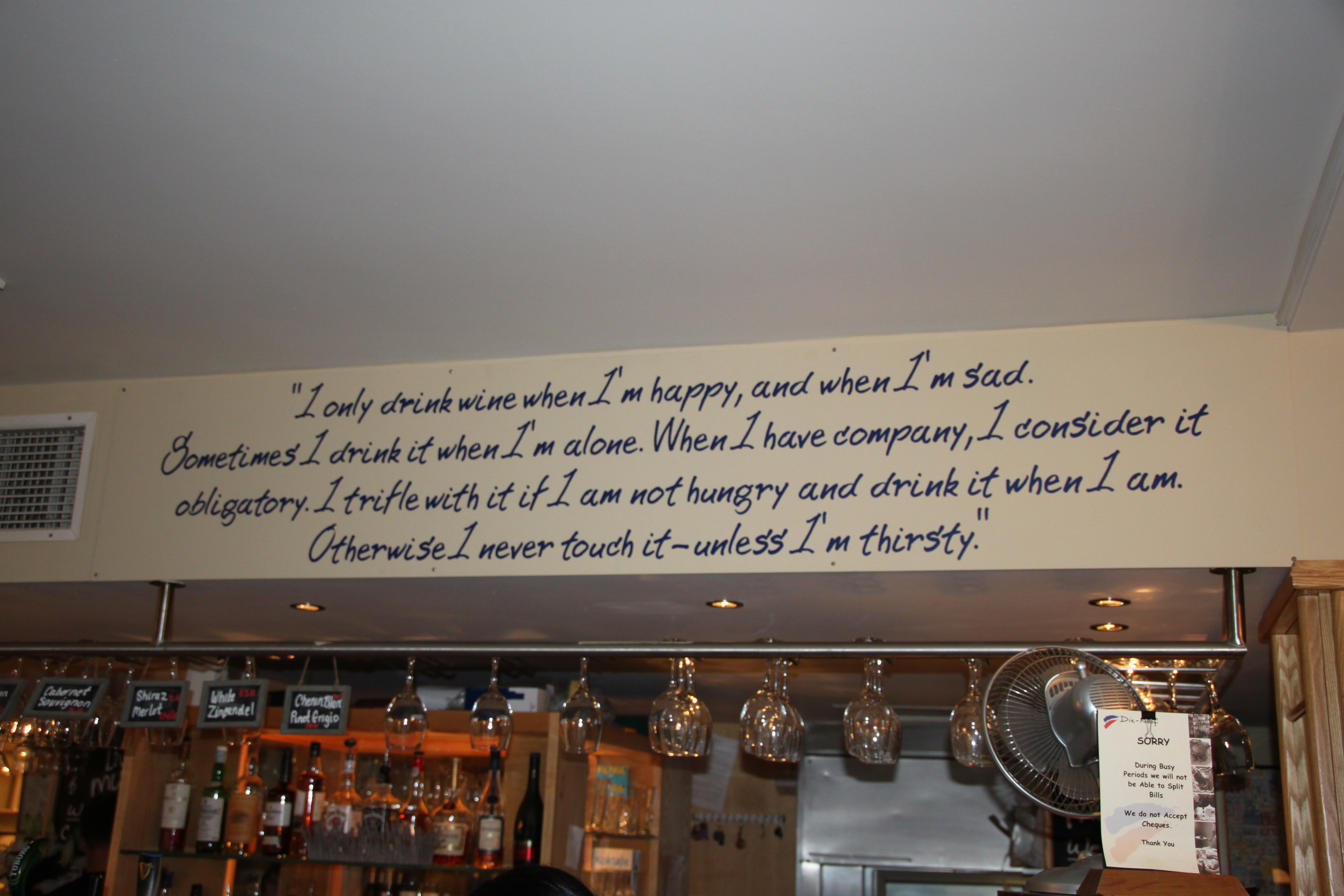 Quote concerning wine: I only drink wine when I'm happy, and when I'm sad. Sometimes I drink it when I'm alone. When I have company, I consider it obligatory. I trifle with it if I am not hungry and drink it when I am. Otherwise I never touch it--unless I'm thirsty. Slightly modified Version of Madame Lily Bollinger reply when she was asked "When do you drink champagne?". Seen at Dix-Neuf Brasserie & Bar, St. Peter Port, Guernsey